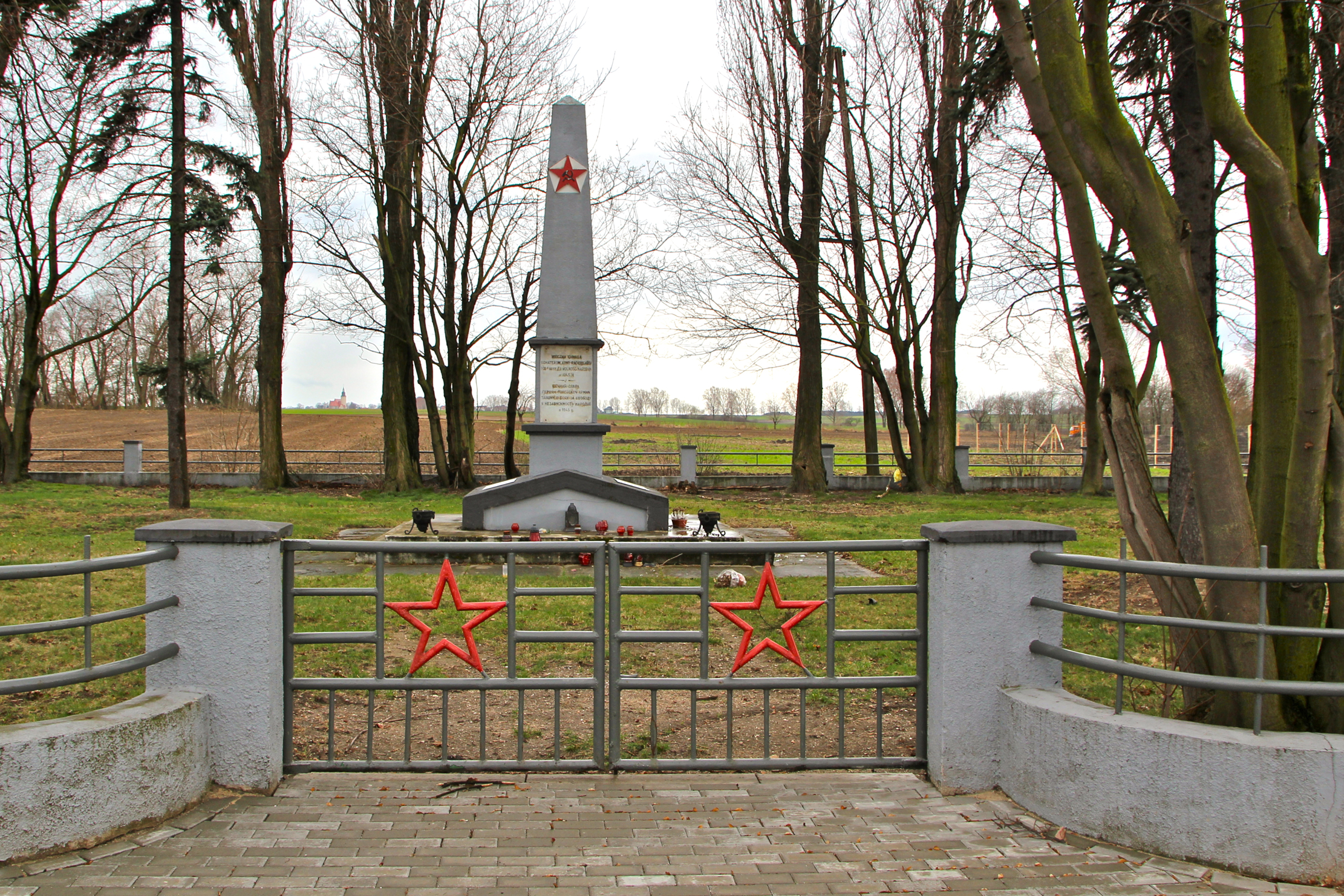 Red Army monument in Chrzowice